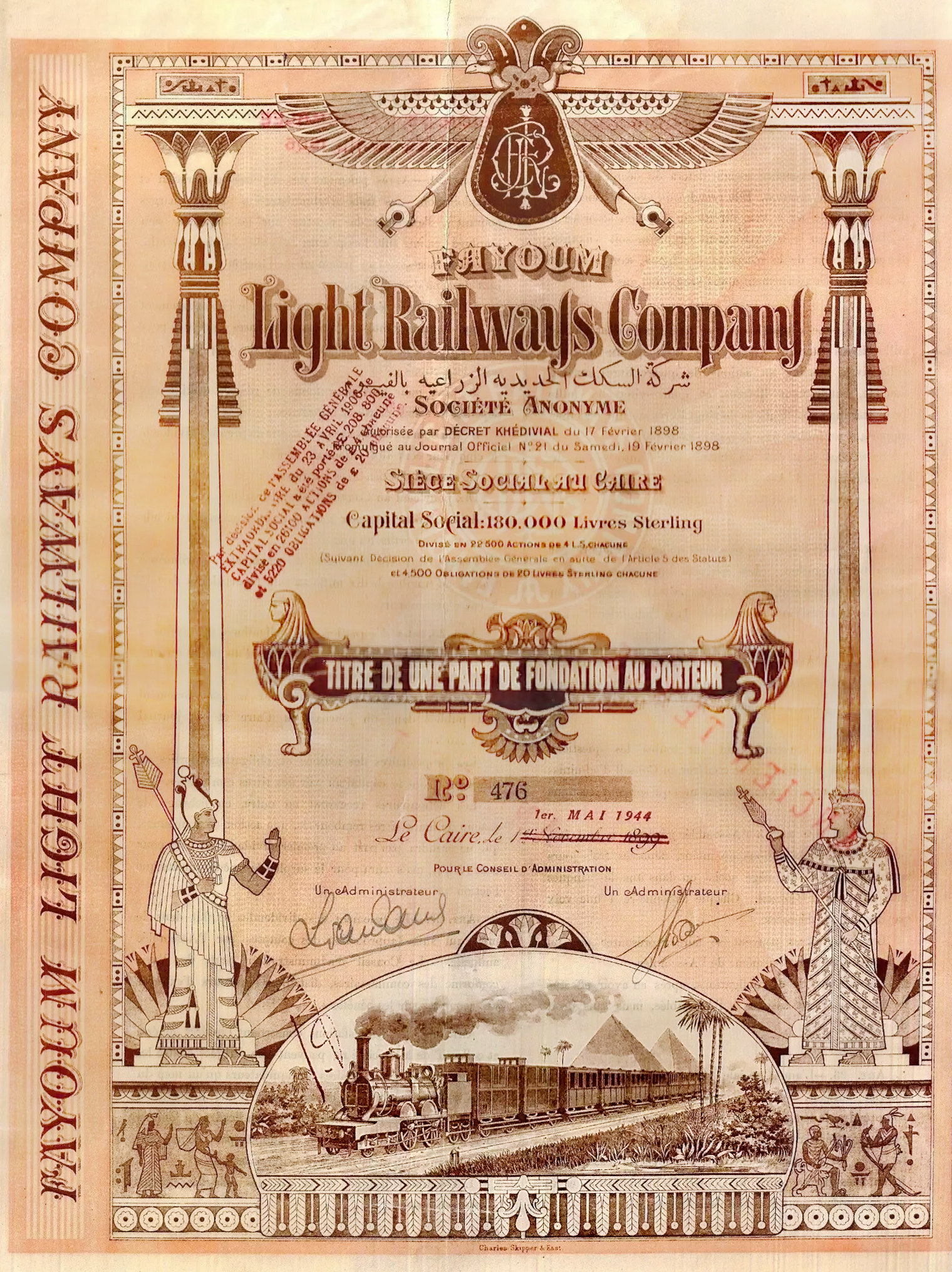 Part of a historic share of the Fayoum Light Railways Company issued on 1 October 1899 and rubber stamped on 1 May 1944